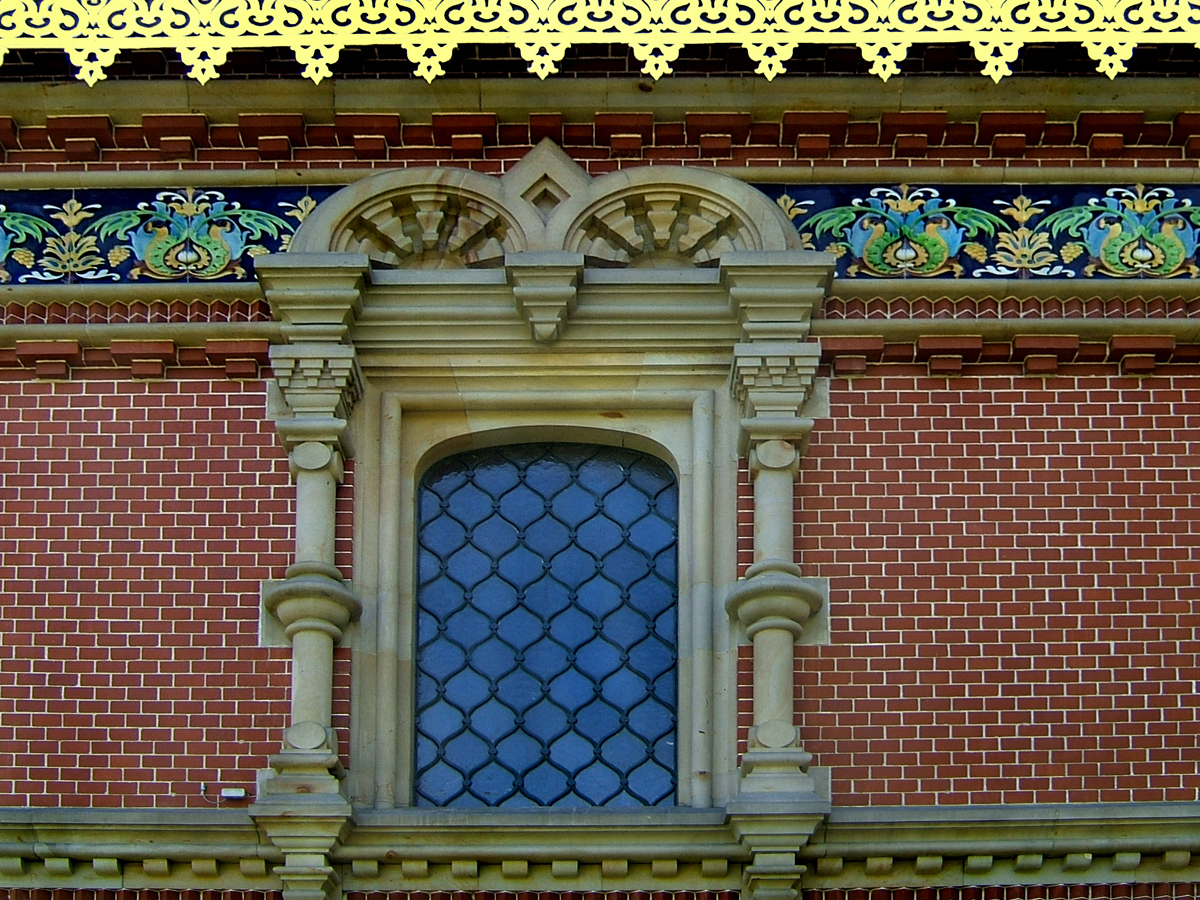 The Russian Chapel in Bad Homburg vor der Höhe, Germany